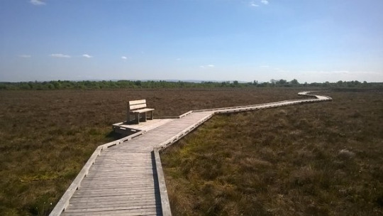 Captured in May 2016, in Clara Bog, Co.Offaly.